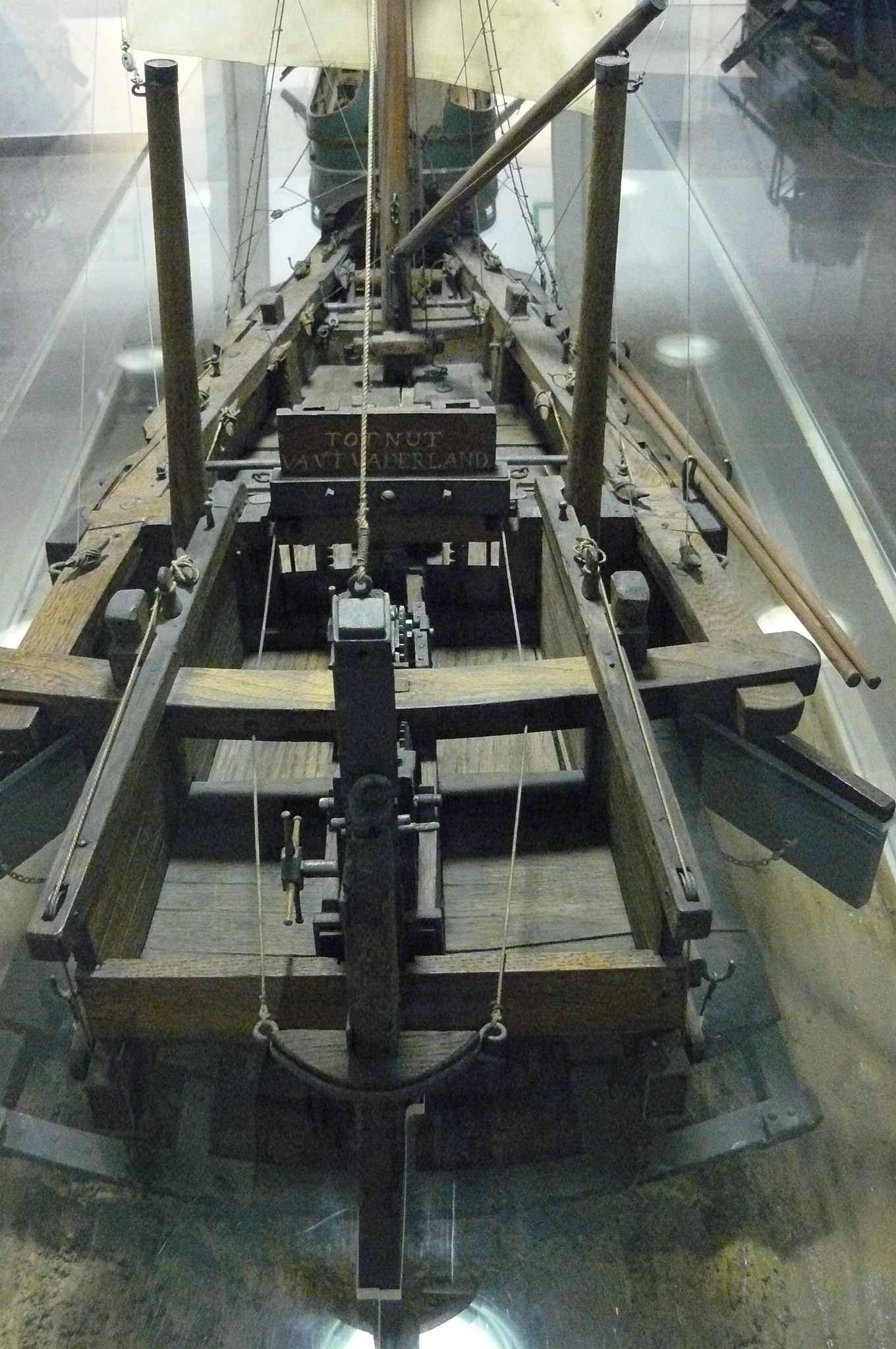 Scraper or silt plough seen in Deutsches Museum, Muenchen, Germany. April 2012